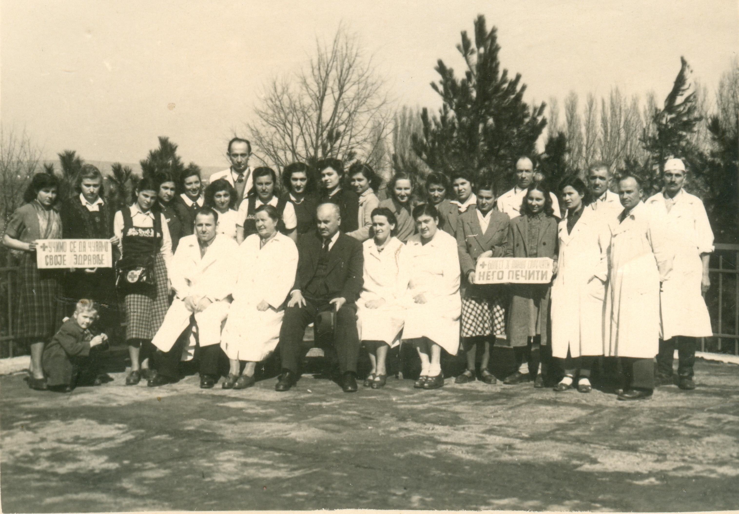 Dr Miodrag Kostic, surgeon doctor, with the hospital staff in Negotin